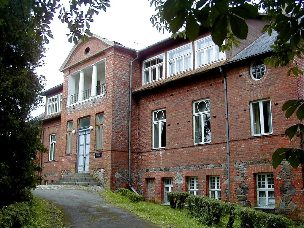 Kalna Manor in Sieksāte